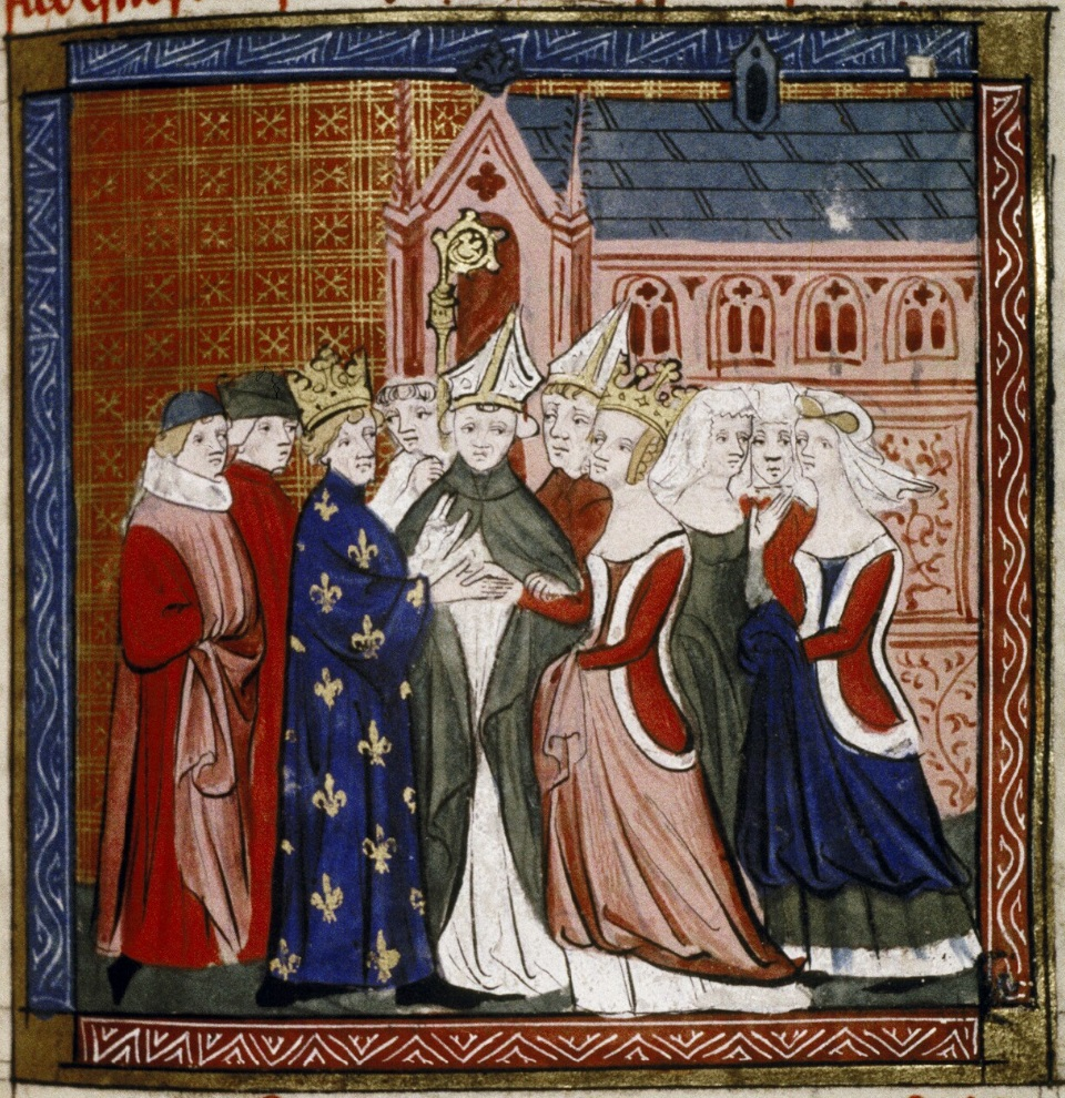 Wedding - Louis VII and Eleanor of Aquitaine